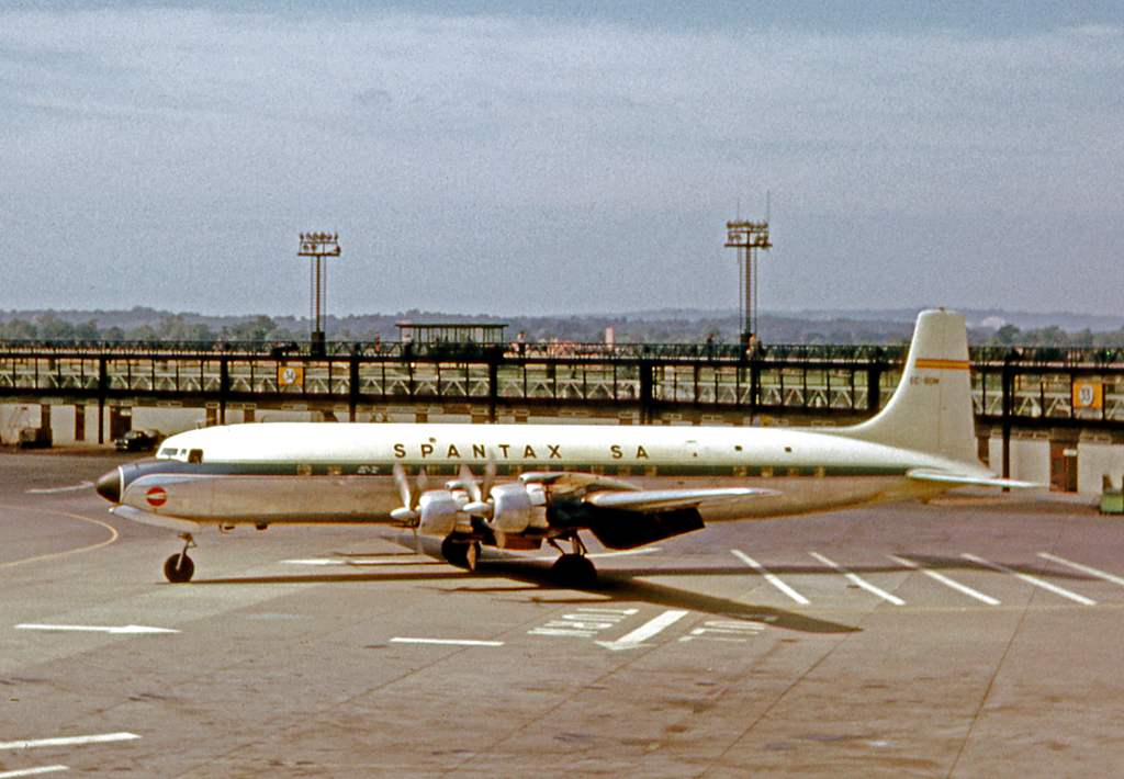 Douglas DC-7C EC-BDM of Spantax SA at London Gatwick Airport in 1966.